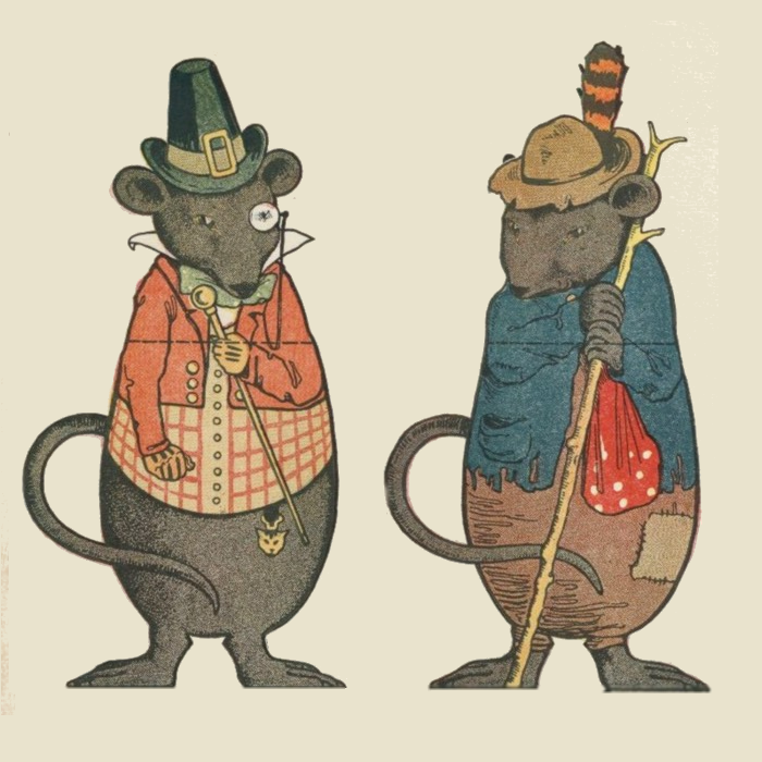 Depiction of the town mouse and country mouse of Aesop's Fables appearing in "The Twelve Magic Changelings" illustration by M. A. Glen.